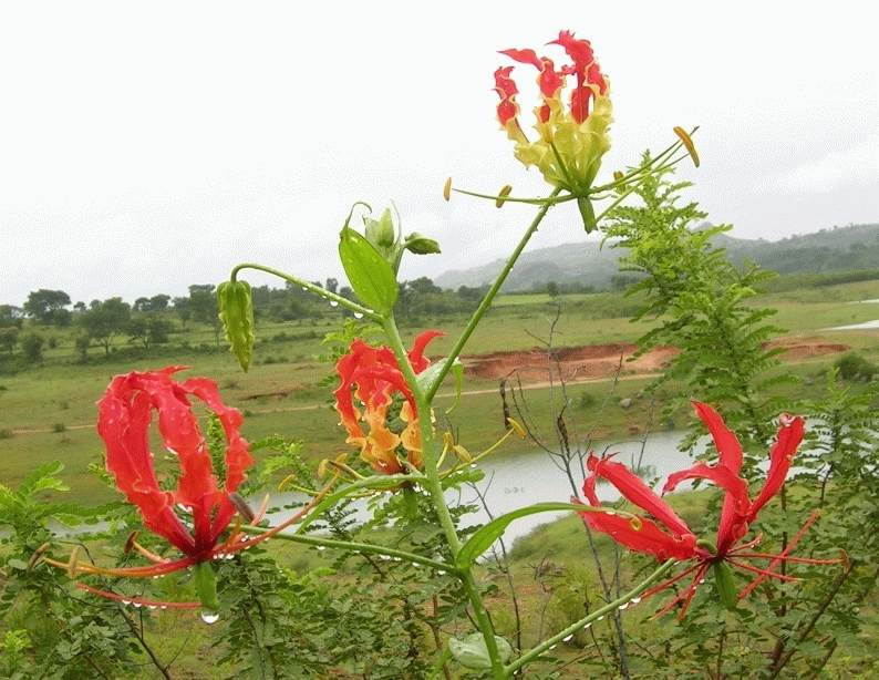 Gloriosa superba - Photographed near Bangalore by L. Shyamal